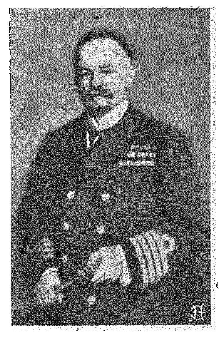 Admiral Sir Percy Moreton Scott, 1st Baronet, KCB, KCVO, LL.D (10 July 1853 – 18 October 1924) was a British Royal Navy officer and a pioneer in modern naval gunnery. During his career he proved to be an engineer and problem solver of some considerable foresight, ingenuity and tenacity. He did not, however, endear himself to the Navy establishment for his regular outspoken criticism of the Navy's conservatism and resistance to change and this undoubtedly slowed the acceptance of his most important ideas, notably the introduction of directed firing. In spite of this, his vision proved correct most of the time and he rose to the rank of admiral and amongst other honours was made baronet, a hereditary title.